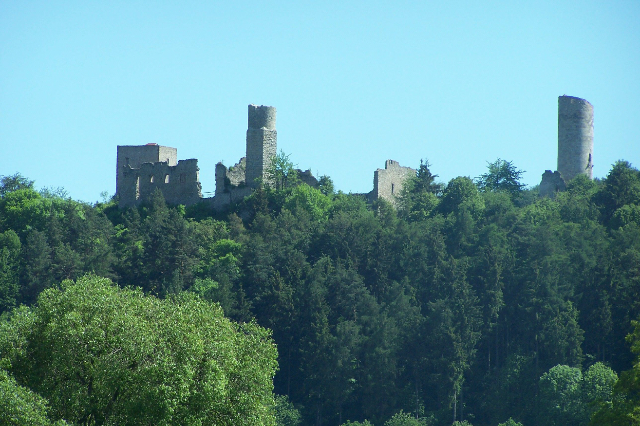 Brandenburg castle, seen from northwest.